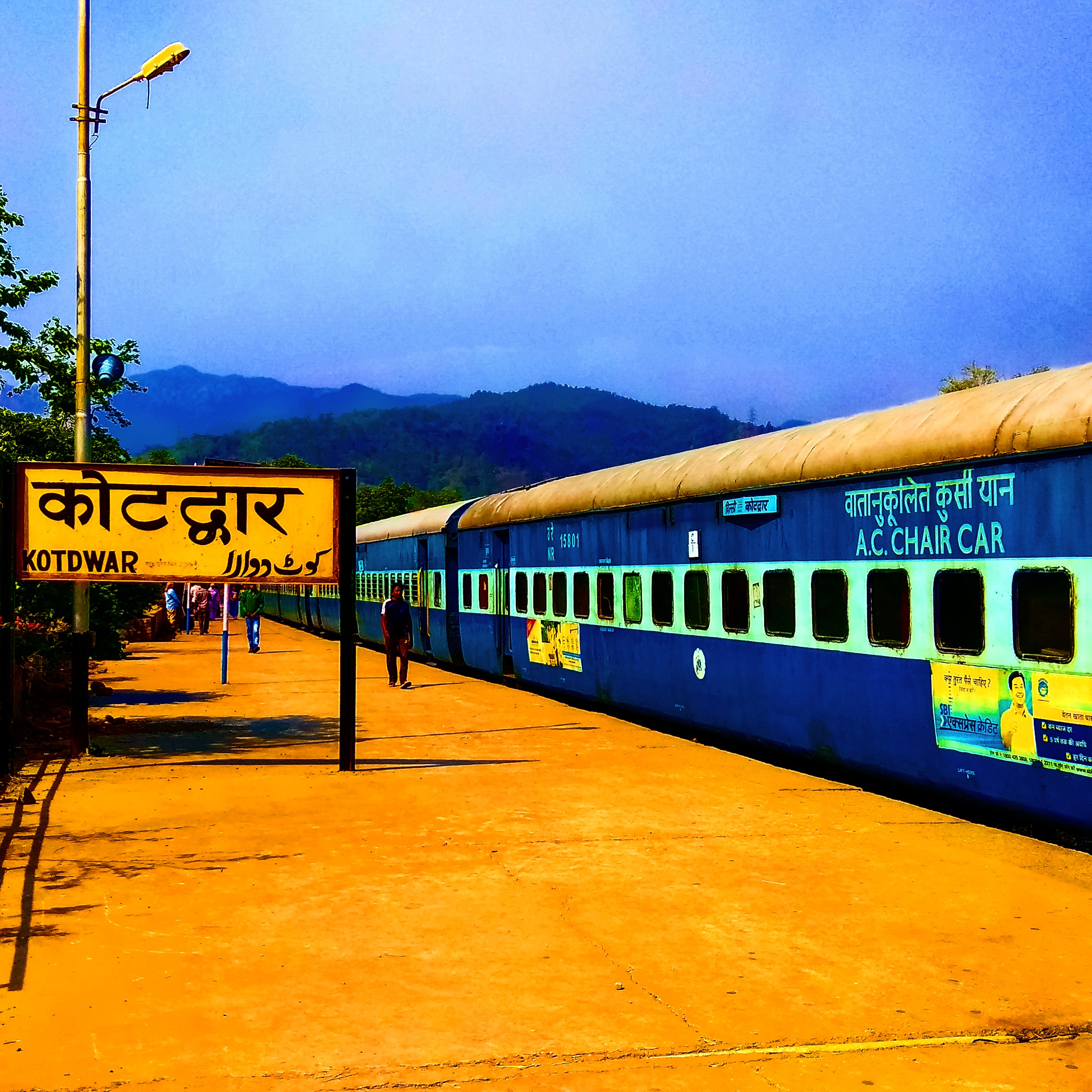 One of the oldest railway station in India nestled in the foothills of shivalik hills